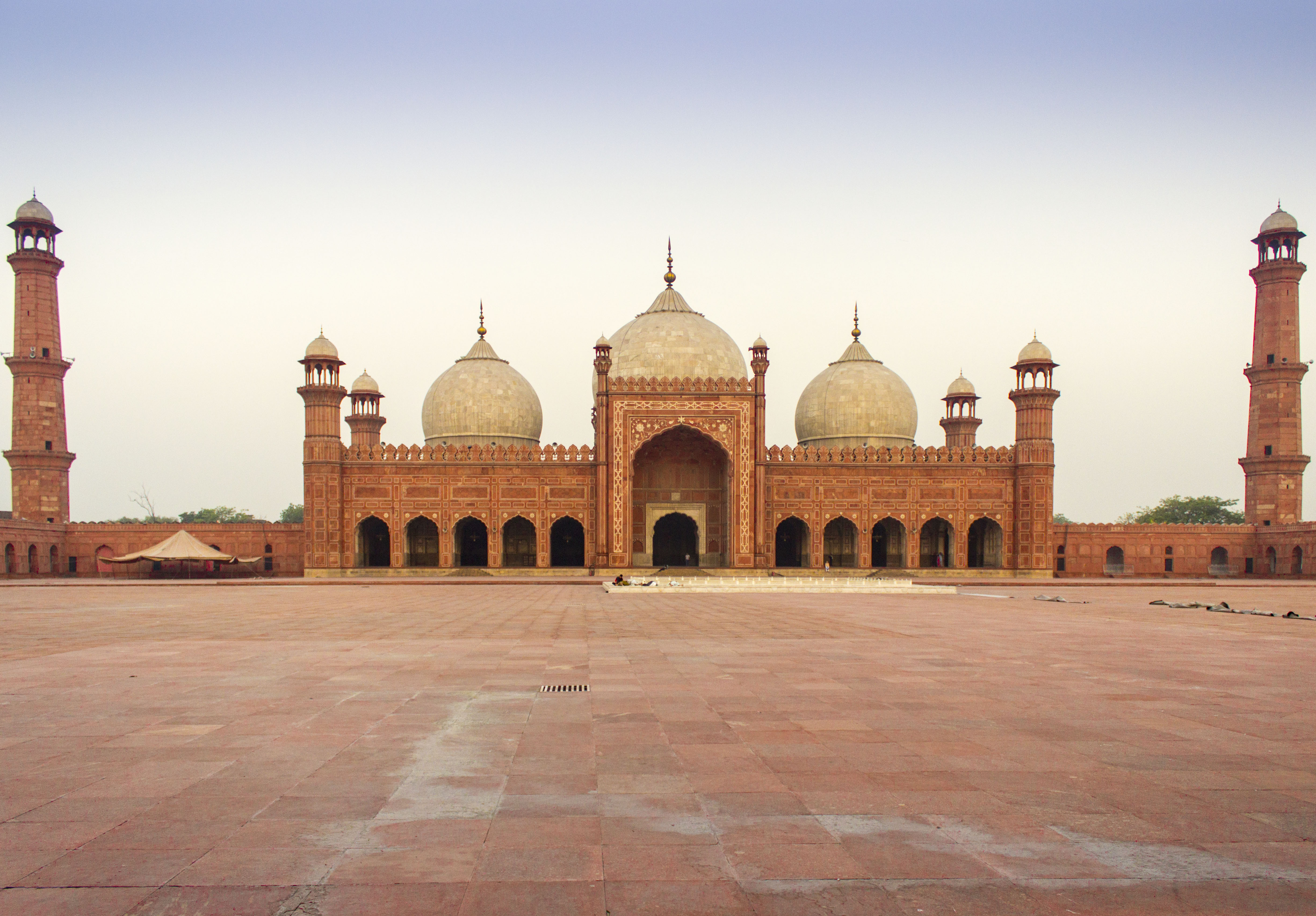 Badshahi Mosque (King’s Mosque) This is a photo of a monument in Pakistan identified as the PB-44